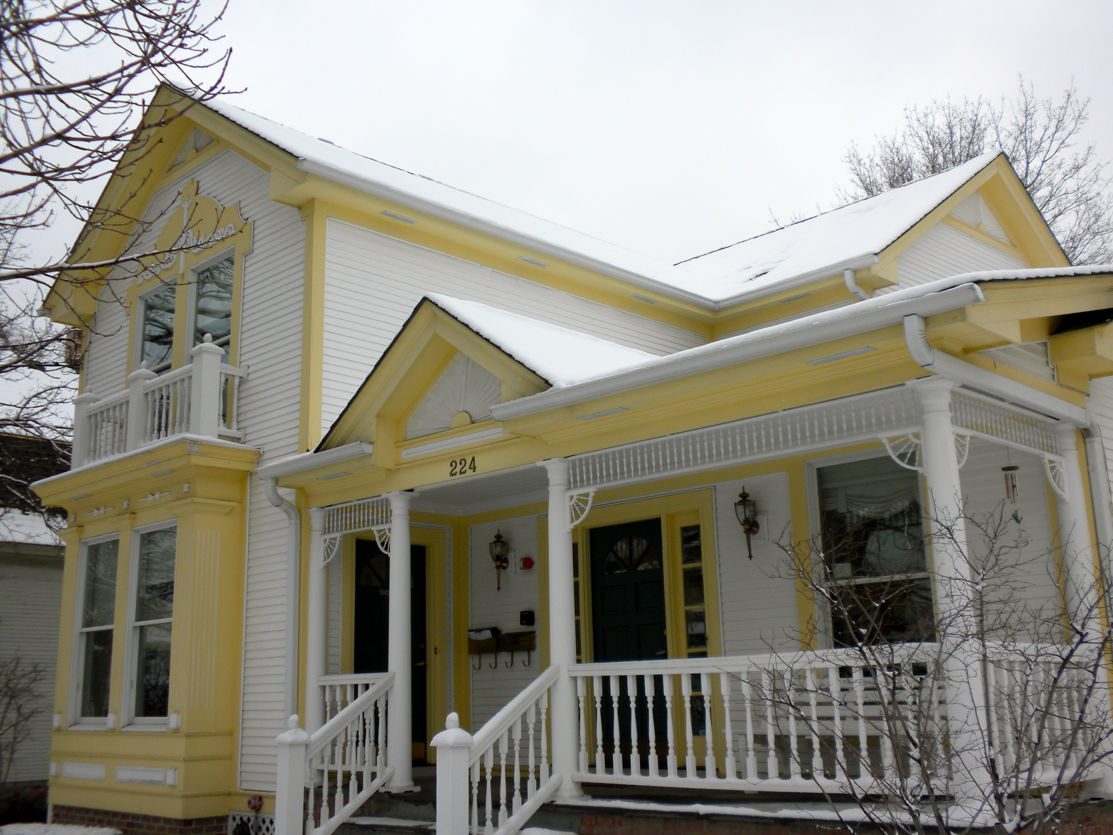 House in Barrington Historic District in LAKE County, Illinois in NRHP. 24 West Main St. Barrington. Main St. is also known as County Line Road or Lake-Cook Road. A very small part of the HD is in Lake County - the majority is in Cook County. Note that this house is across the street from the octagonal House at 25 W. Main which is a NRHP site all by itself. The HD is roughly bounded by Chicago and Northwestern Railroad, South Spring and Grove Streets, East Hillside and West Coolidge, and Dundee Avenues